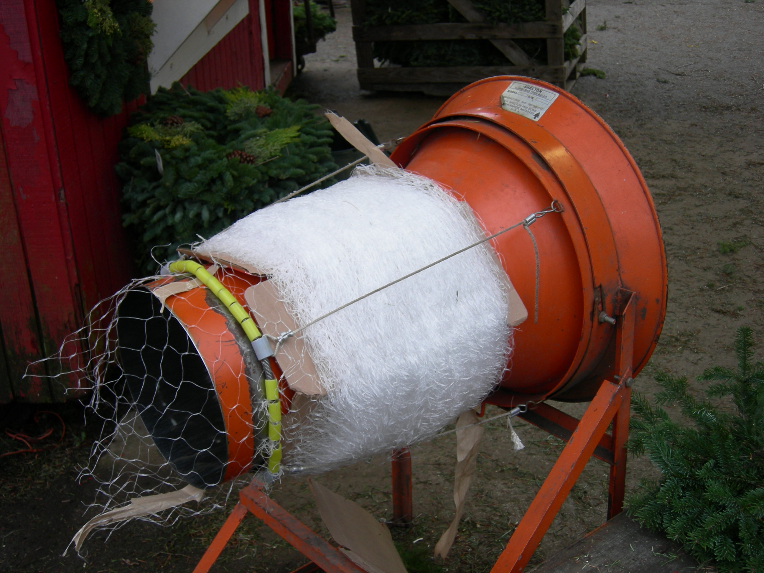 Tree baler, Hunter's Tree Farm lot in the 7700 block of 35th Avenue NE, Wedgwood, Seattle, Washington. See Image:Hunter's Tree Farm - baling a tree 01.jpg for how this is used. The actual Hunter's Tree Farm is in the Skokomish Valley, but they retain this plot of land in the city to sell Christmas trees every year. (It's also used in the summer and early autumn to sell berries, but not for much else.)